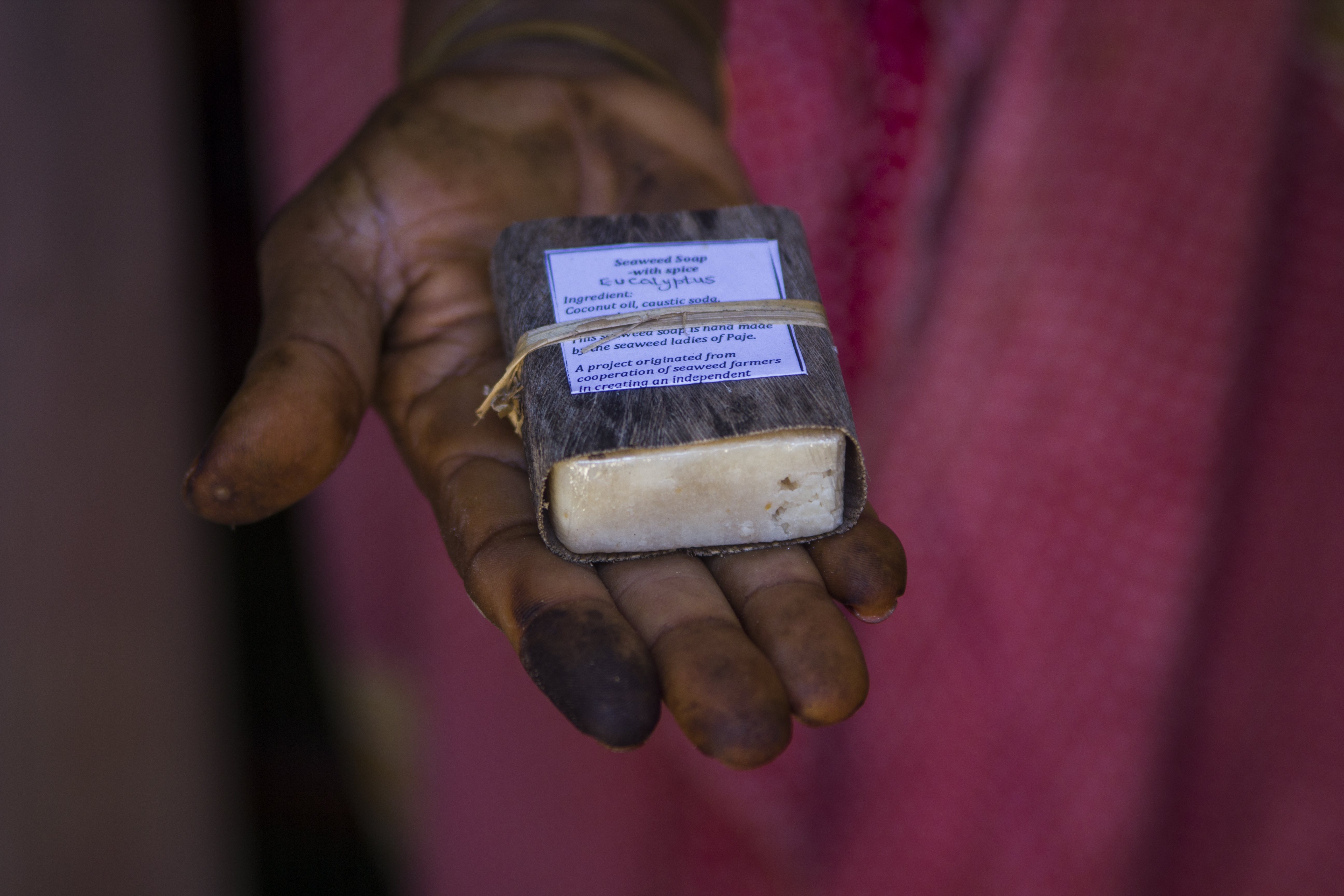 The finished product - a bar of seaweed soap. This is an image of "African people at work" from Tanzania